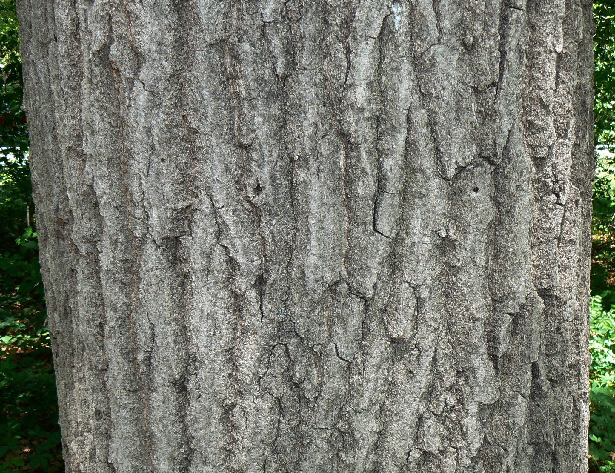 Northern Red Oak (Quercus rubra) bark detail at Arbor Lodge, Nebraska City, Nebraska, USA